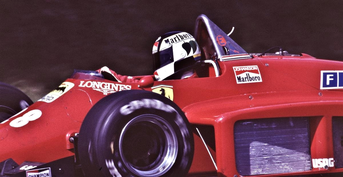 Stefan Johansson - Ferrari 156/85 F1 - Brands Hatch - 1985 Stefan Nils Edwin Johansson (born 8 September 1956 in Växjö, Sweden) is a Swedish racing driver, who drove in Formula One for both Ferrari and McLaren, among other teams.